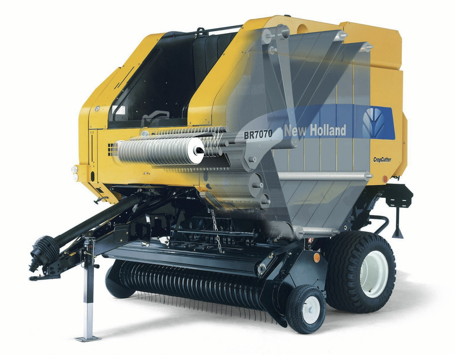 Illustration to show how the Edge Wrap System works; New Holland round baler BR7070